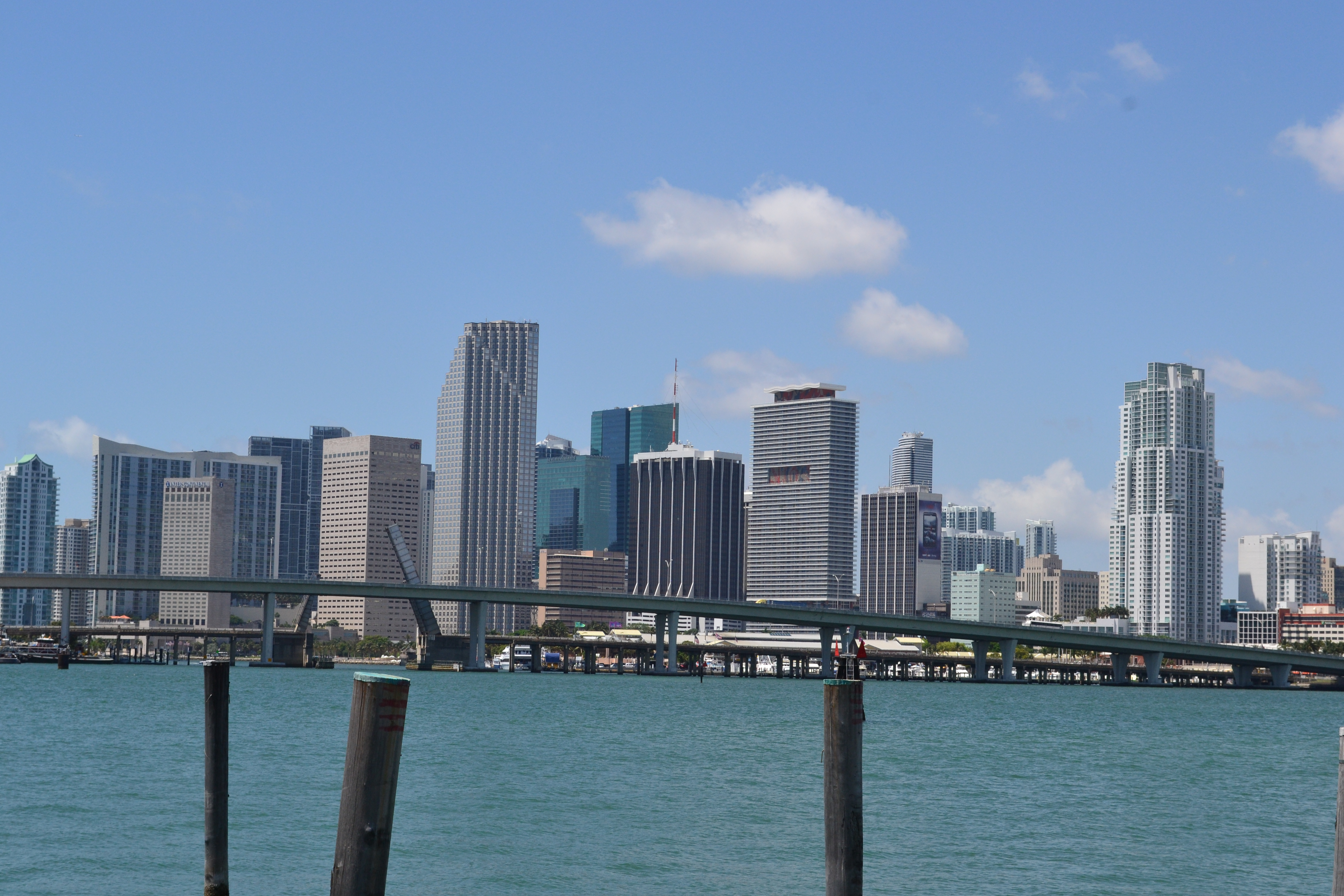 Skyline of downtown Miami, Florida.